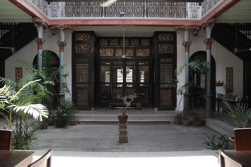 A view of the center courtyard, as seen from the dining hall facing the reception hall.